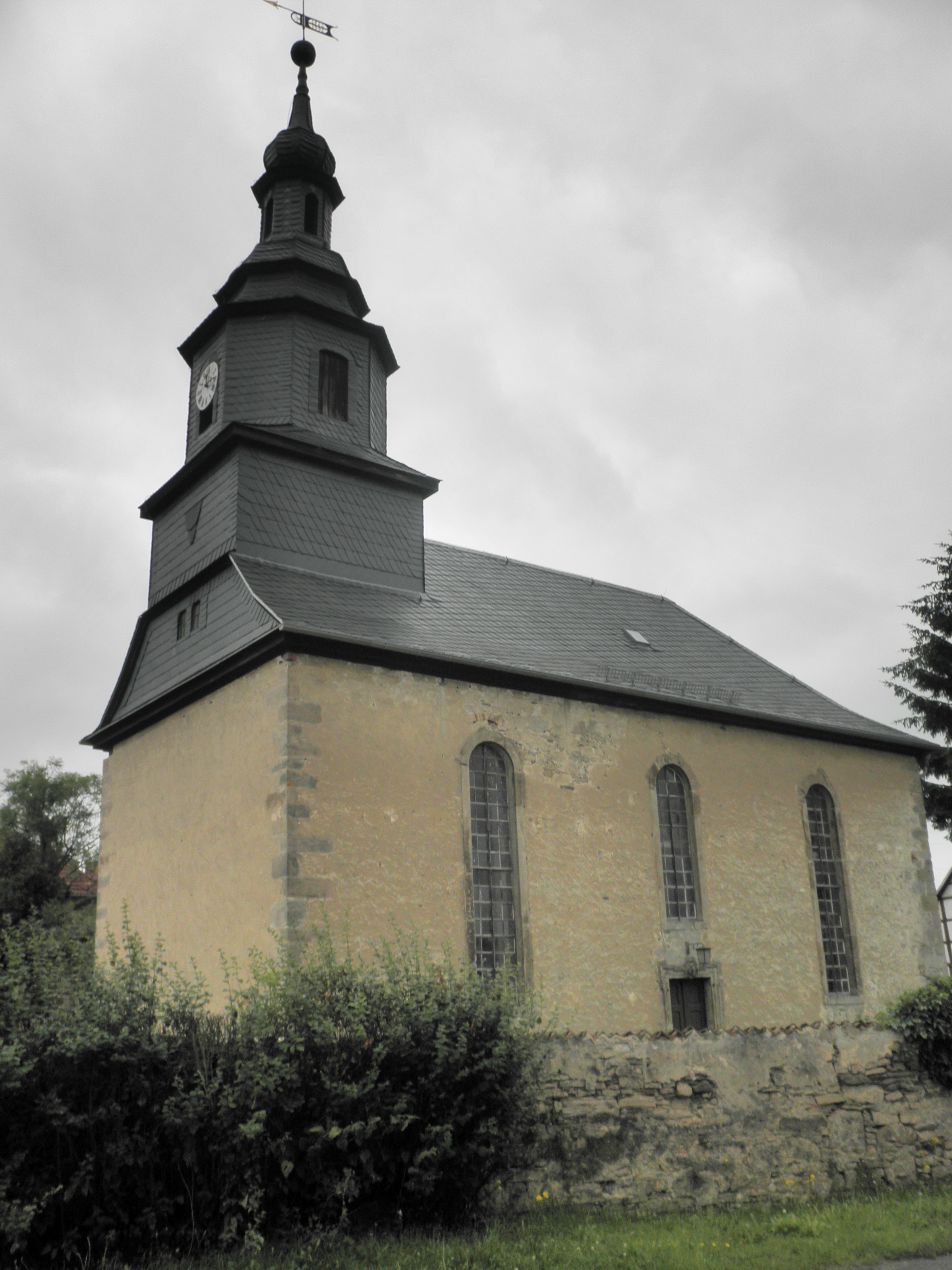 Church in Rehmen (Oppurg) in Thuringia